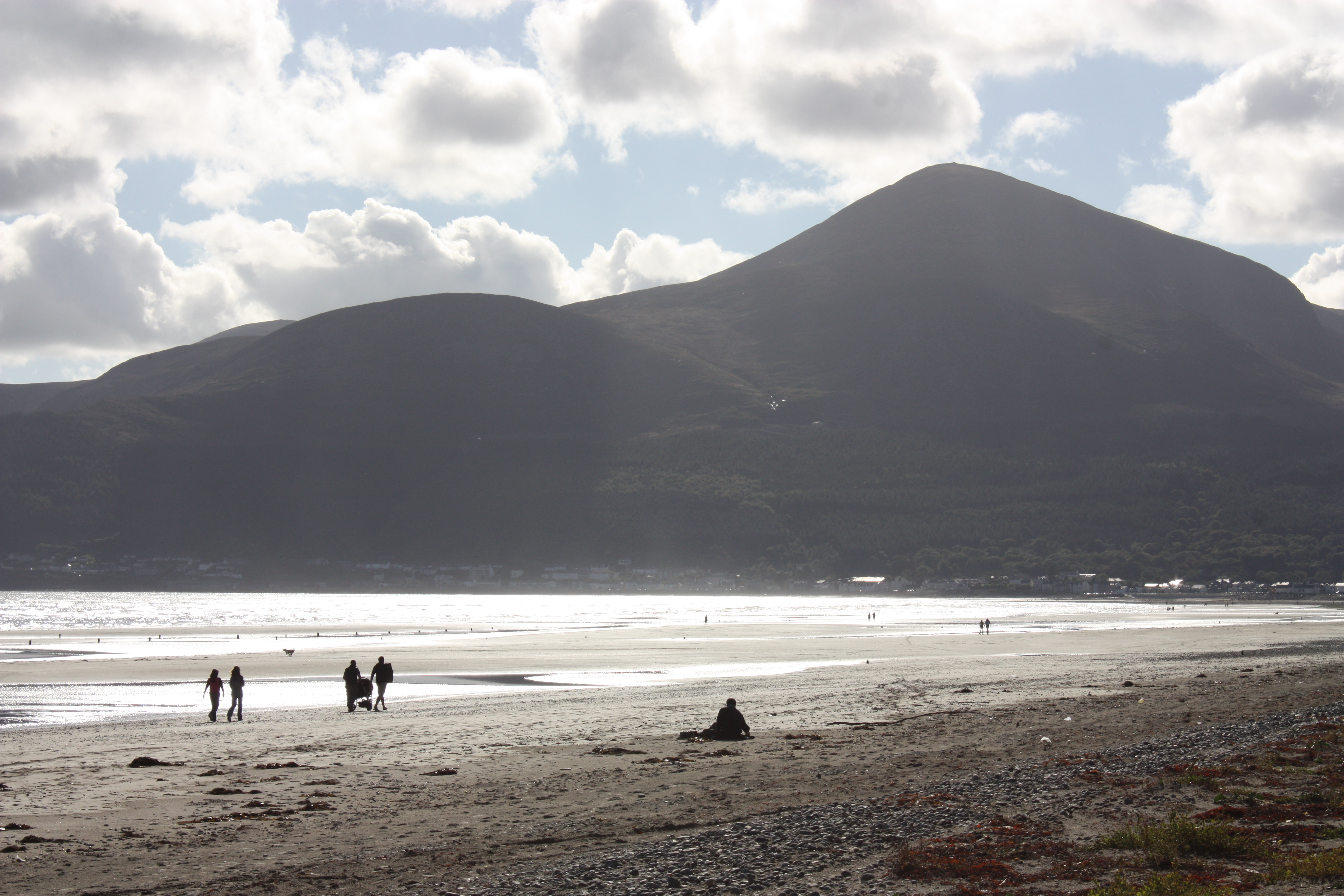 Murlough Beach, Newcastle, County Down, Northern Ireland, October 2010 (looking towards Newcastle, with Mourne Mountains in the background)